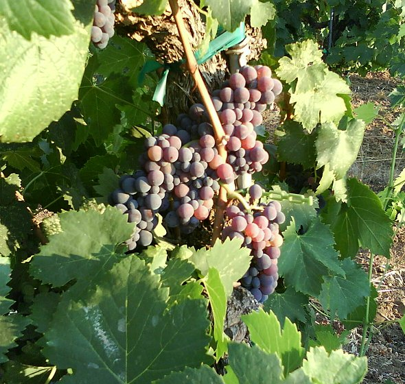 Sangiovese grapes ripening on a vine in Amador county, California